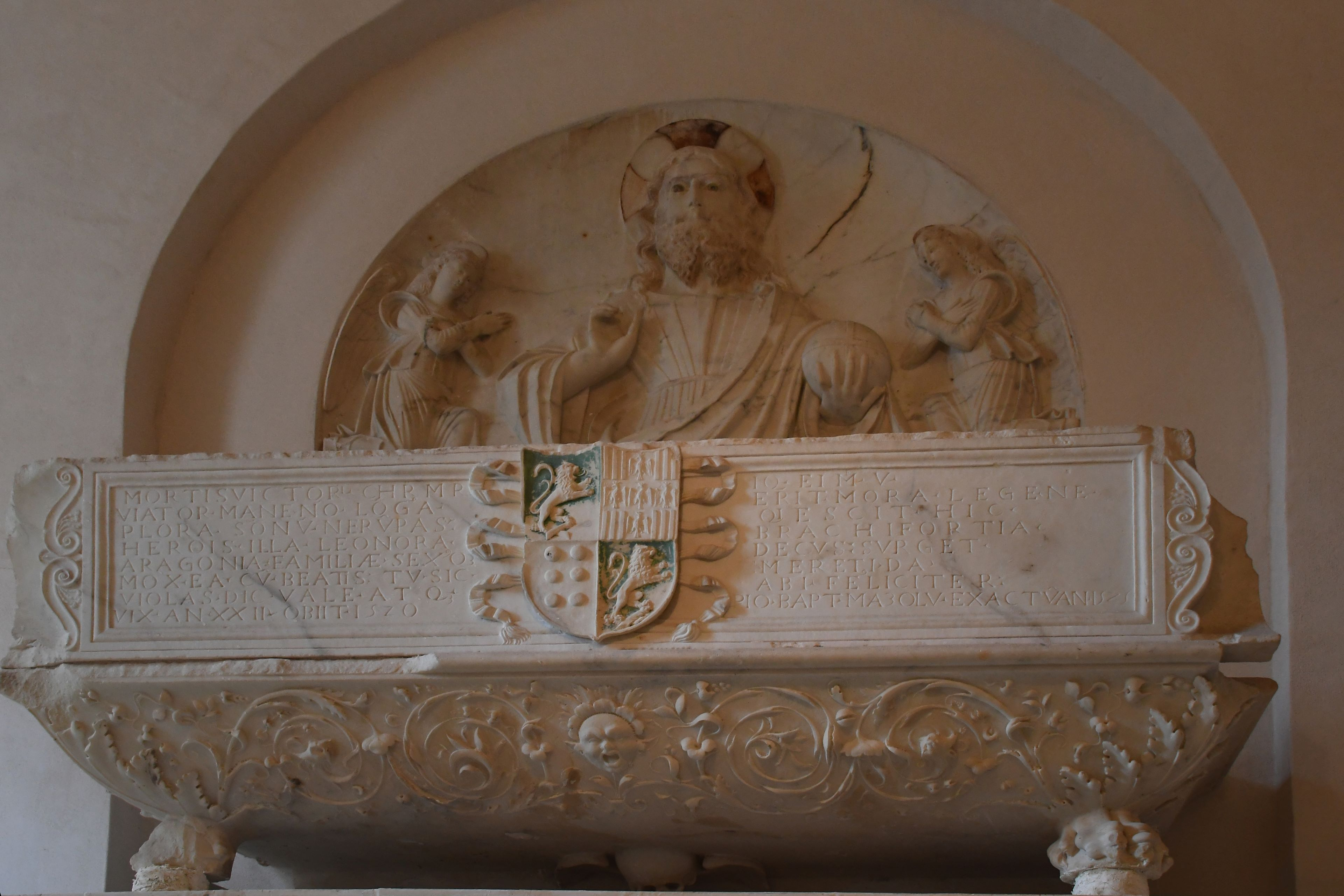 Siracusa, Galleria Regionale di Palazzo Bellomo, Tomb of Eleanora Braneiforte Aragona, Lentini Chiesa di S. Maria di Gesu (Giovanni Battista Mazzolo attr. 1525)